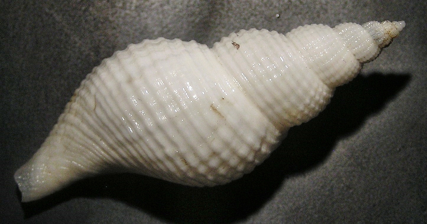 Calagrassor poppei (Fraussen, 2001)(synonym: Eosipho poppei Fraussen, 2001) , a true whelk in the family Buccinidae; Philippines